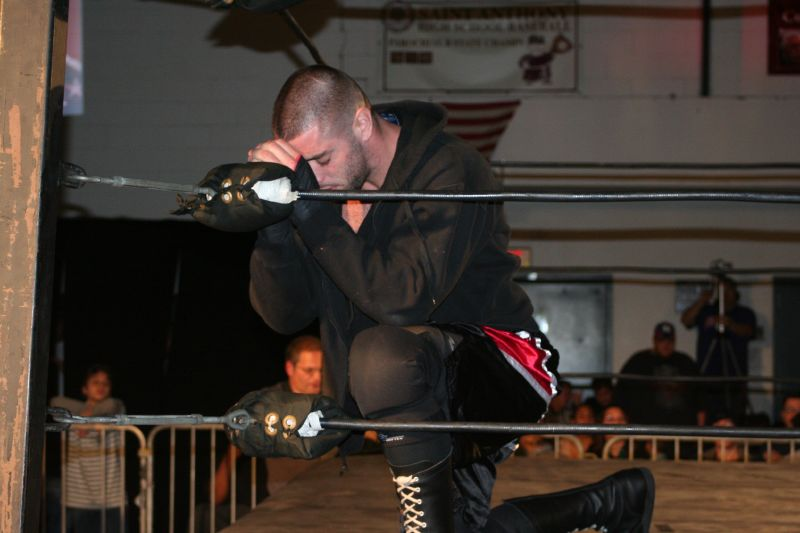 Professional wrestler Mark Briscoe praying prior to the start of a match at a Jersey All Pro Wrestling show on November 15, 2008.